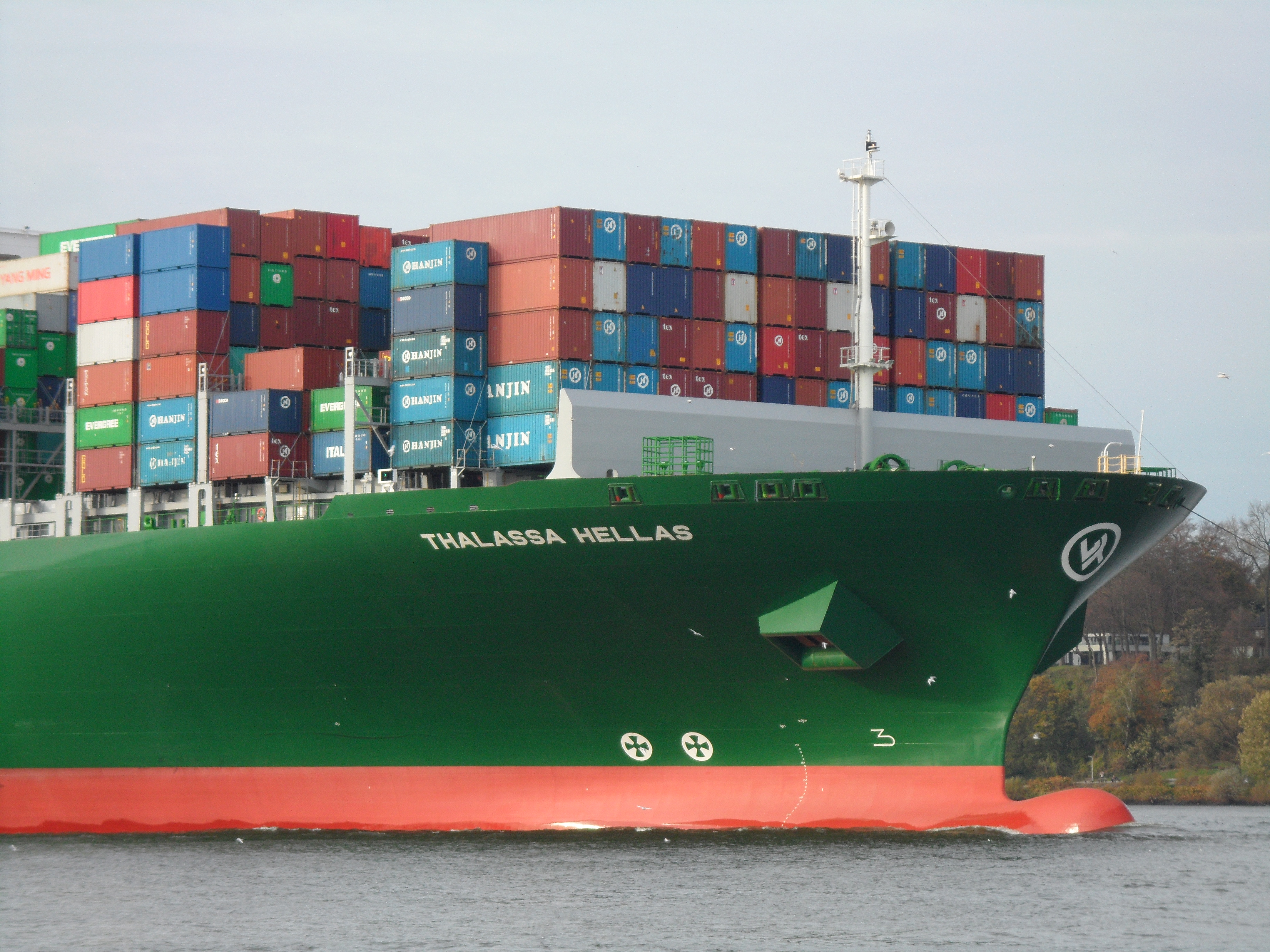 Container ship Thalassa Hellas on its maiden voyage on the river Elbe, Destination Hamburg